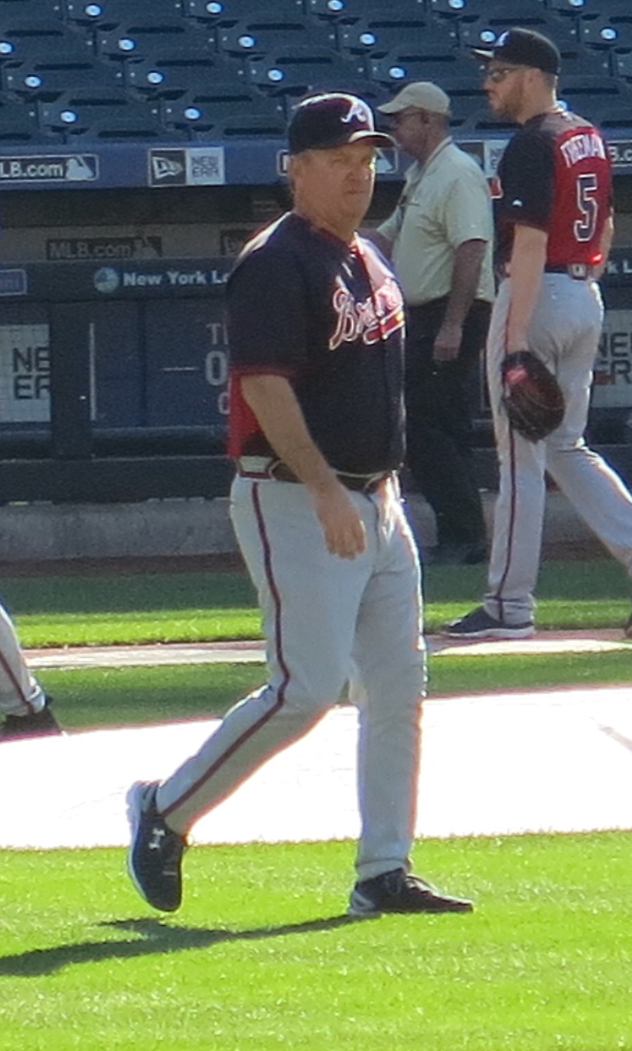 Kevin Seitzer of the Atlanta Braves, June 17, 2016.